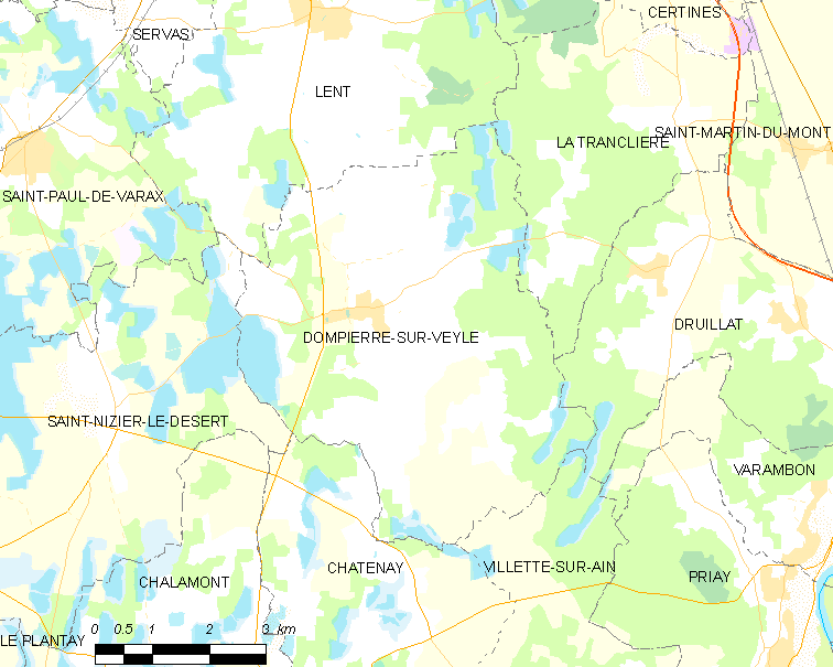 Map of French commune: Dompierre-sur-Veyle Map commune FR insee code 01145.png